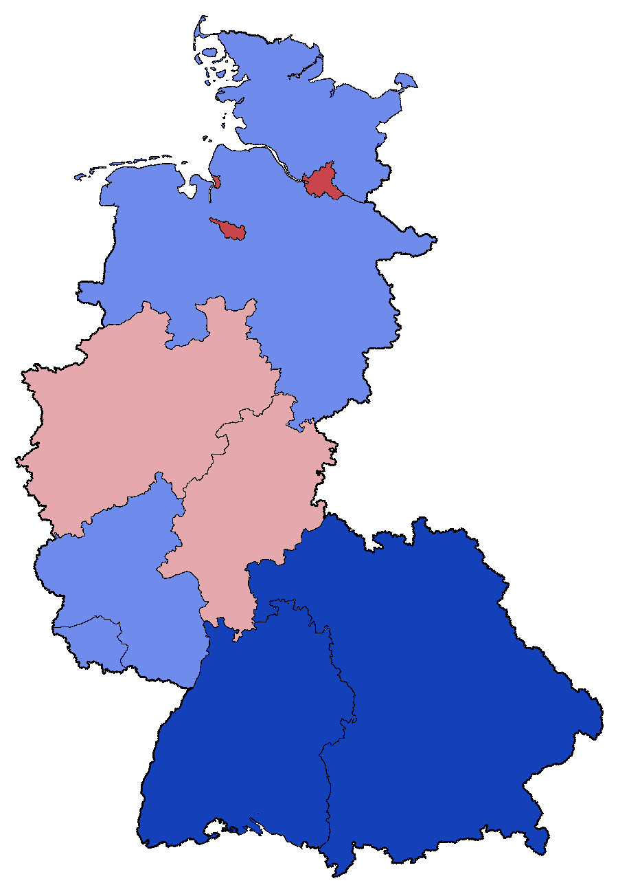 Electoral map showing the party list vote results (Zweitstimmen) of the 1969 Bundestag (West German parliament) elections by state. Red denotes states where the SPD had the the absolute majority of the votes; pink denotes states where the SPD had the plurality of votes; darker blue denotes states where CDU/CSU had the absolute majority of the votes; and lighter blue denotes states where CDU/CSU had the plurality of votes.